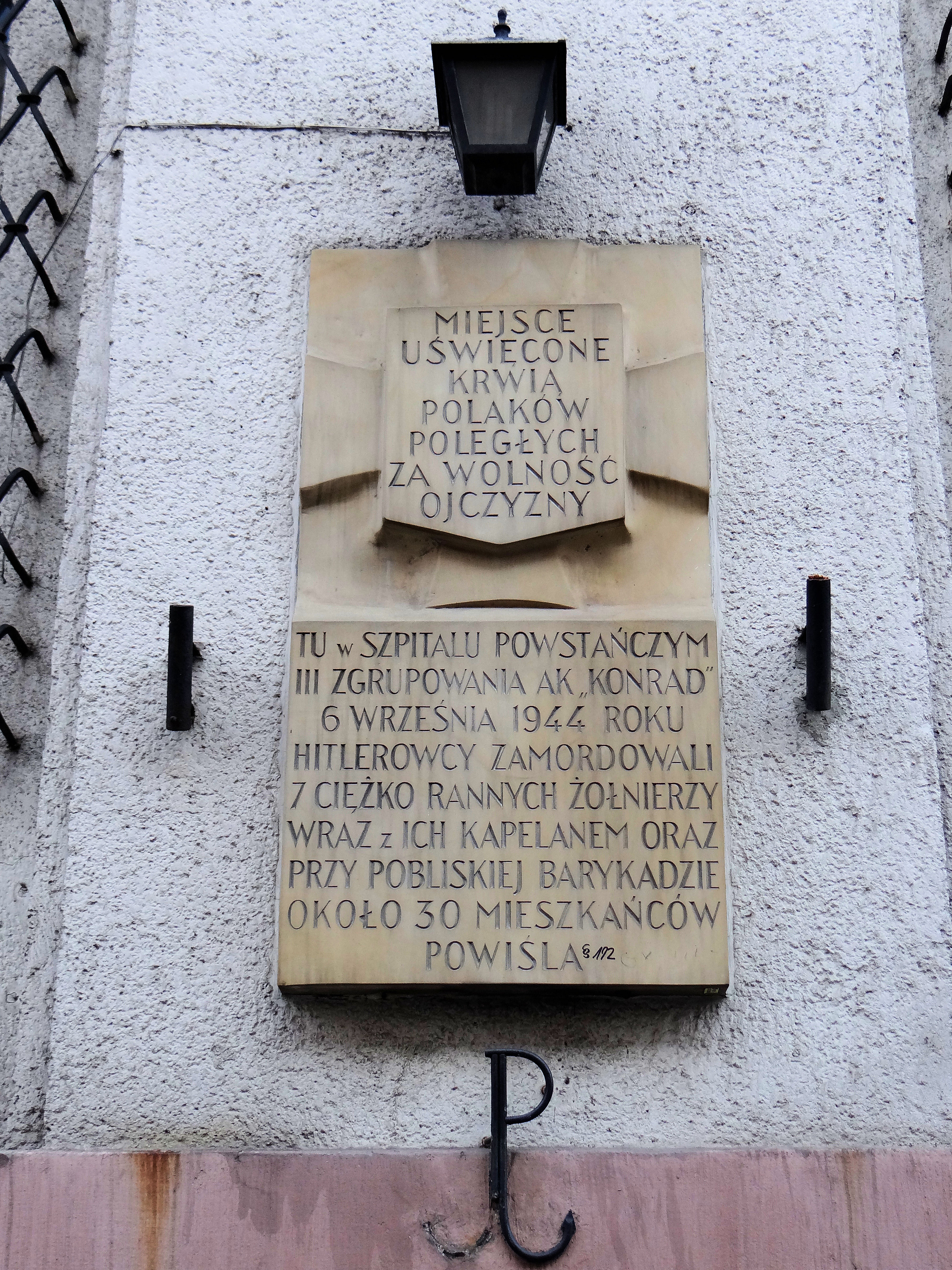 Place of National Memory at 3, Tamka Street in Warsaw